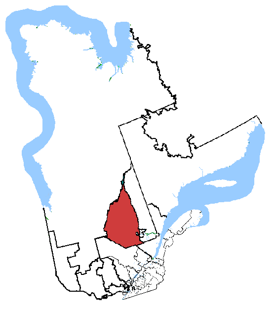 Map of the Roberval—Lac-Saint-Jean electoral district. Based on Earl Andrew's maps, created by SimonP.